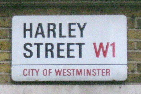 Street sign, Harley Street, Westminster, London W1.